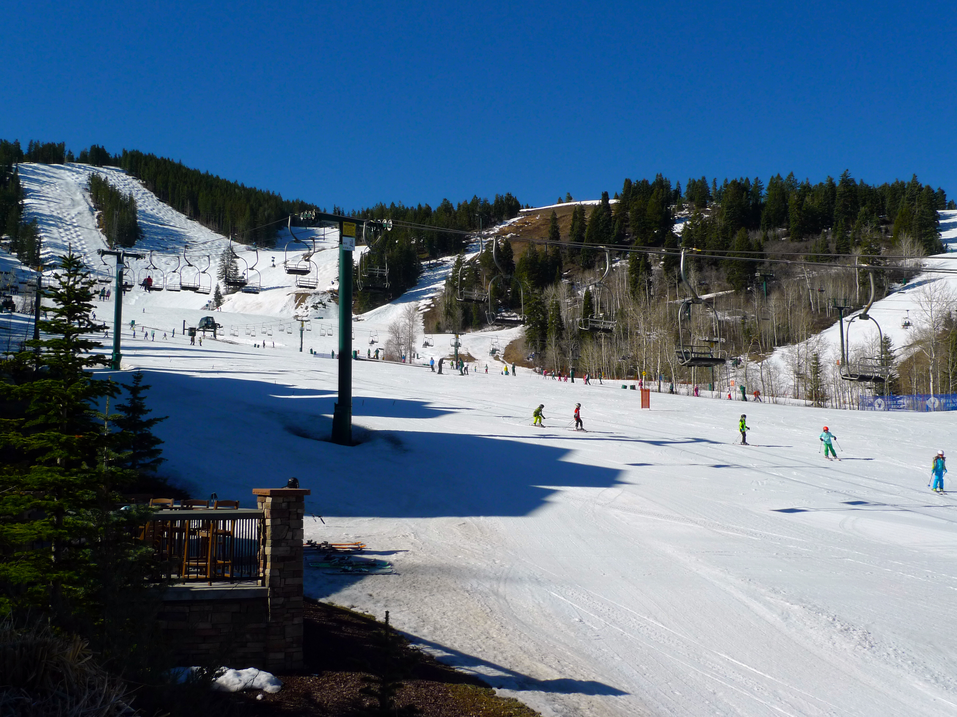 Skiing at Deer Valley Utah photo Ramey Logan